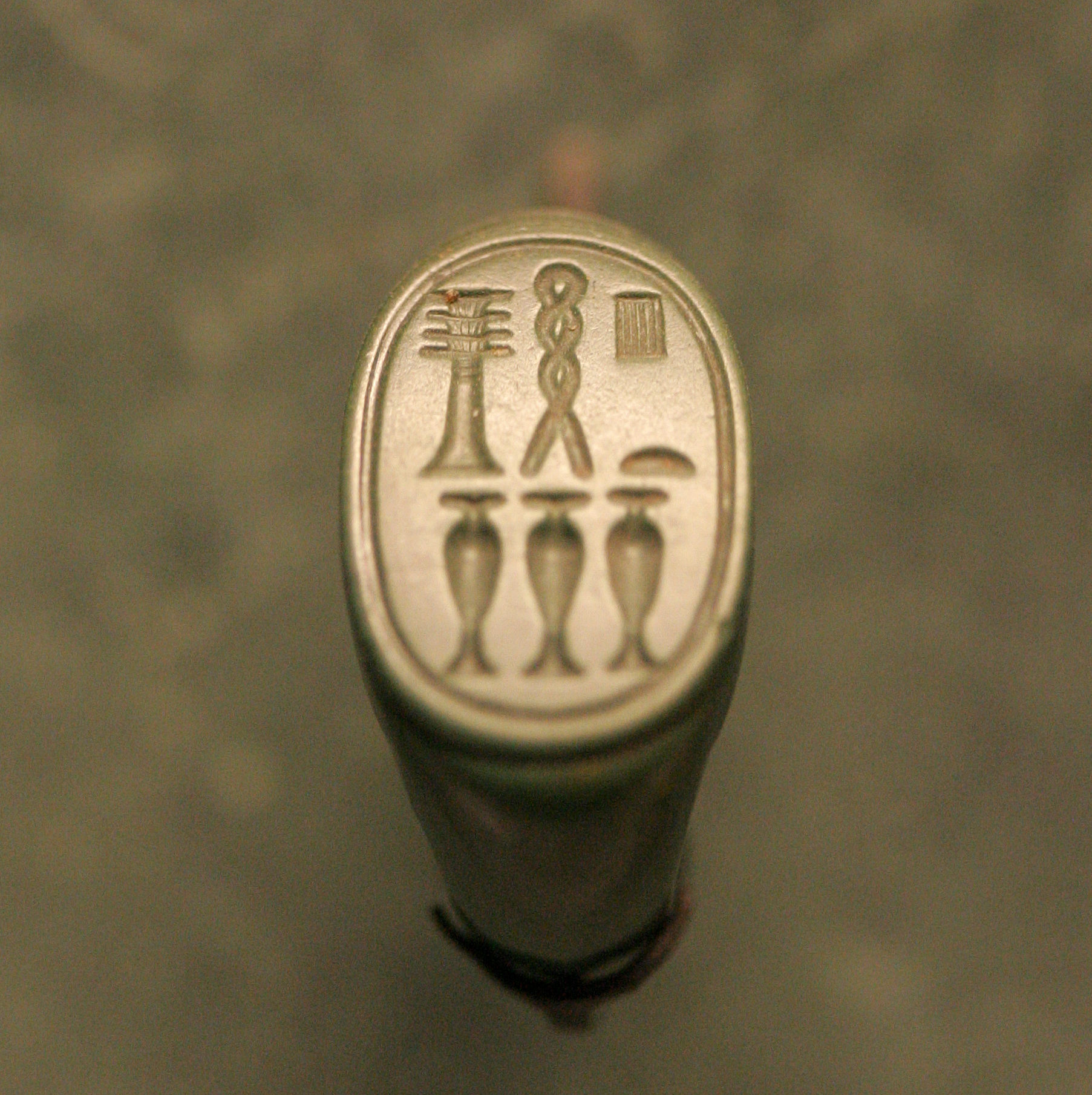 Seal ring featuring the inscription: "Ptah the one with durable favours"Hieroglyphs-(read from right, top): Ptah-(p-t-h)-(gives)-enduring-(Djed)-favors-(i.e.-libation offerings-(3, for plural))Collection Louvre Museum (Inventory)Native nameMusée du LouvreParent institutionÉtablissement public du musée du Louvre LocationParisCoordinates48° 51′ 37.42″ N, 2° 20′ 15.36″ E Established1793 Web page control : Q19675 VIAF: 257711507 ISNI: 0000 0001 2260 177X ULAN: 500125189 LCCN: n80020283 NLA: 35912436 WorldCat institution QS:P195,Q19675Current location Sully Rez-de-chaussée La parure Salle 9Accession number N2080References Louvre.frSource/Photographer Rama